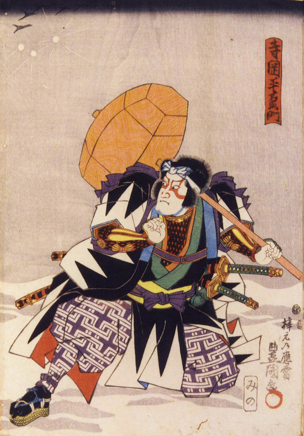 Kuzō Ichikawa II as Teraoka Heiemon in Kanadehon Chūshingura, by Toyokuni Utagawa III (the March 1849 production at Edo Nakamura-za)